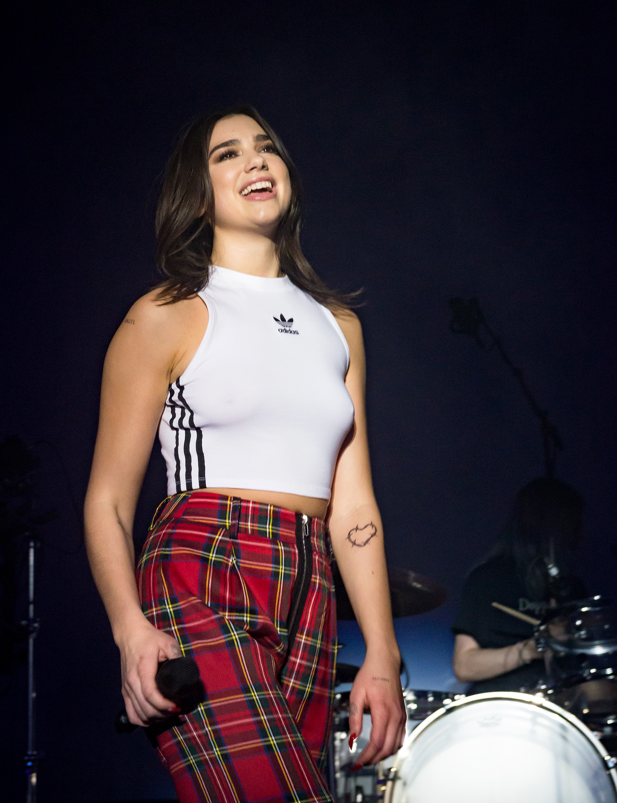 Dua Lipa performing live at The Palladium in Hollywood, Los Angeles, California, on Thursday, February 8, 2018. The first of two sold out nights at this venue on Dua's "Self-Titled" Tour. Shot for Live Nation's Ones To Watch.